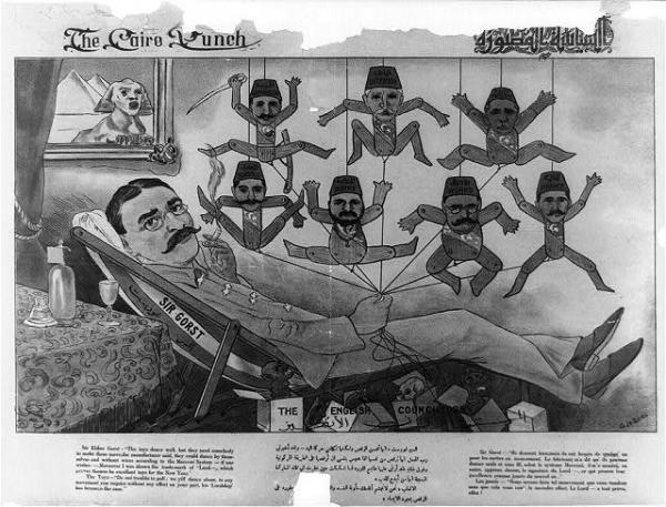 Political cartoon showing Sir Eldon Gorst, British Consul-General in Egypt, reclining and holding strings attached to puppets representing Egyptian ministers: "War Ministry", "Interior", "Foreign", "Justice", "Works" and "Finance". The cartoon, titled The English Councillors, was published in the Cairo Punch, and highlights Gorst's control of the Egyptian Cabinet. The text in the lower part is in English, Arabic and French.